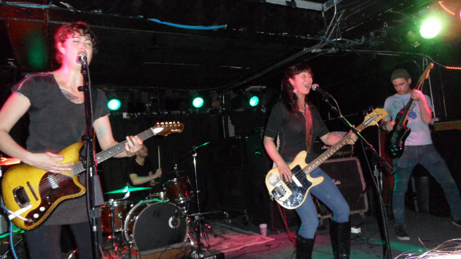 The Minneapolis punk band performing at Subterranean in Chicago